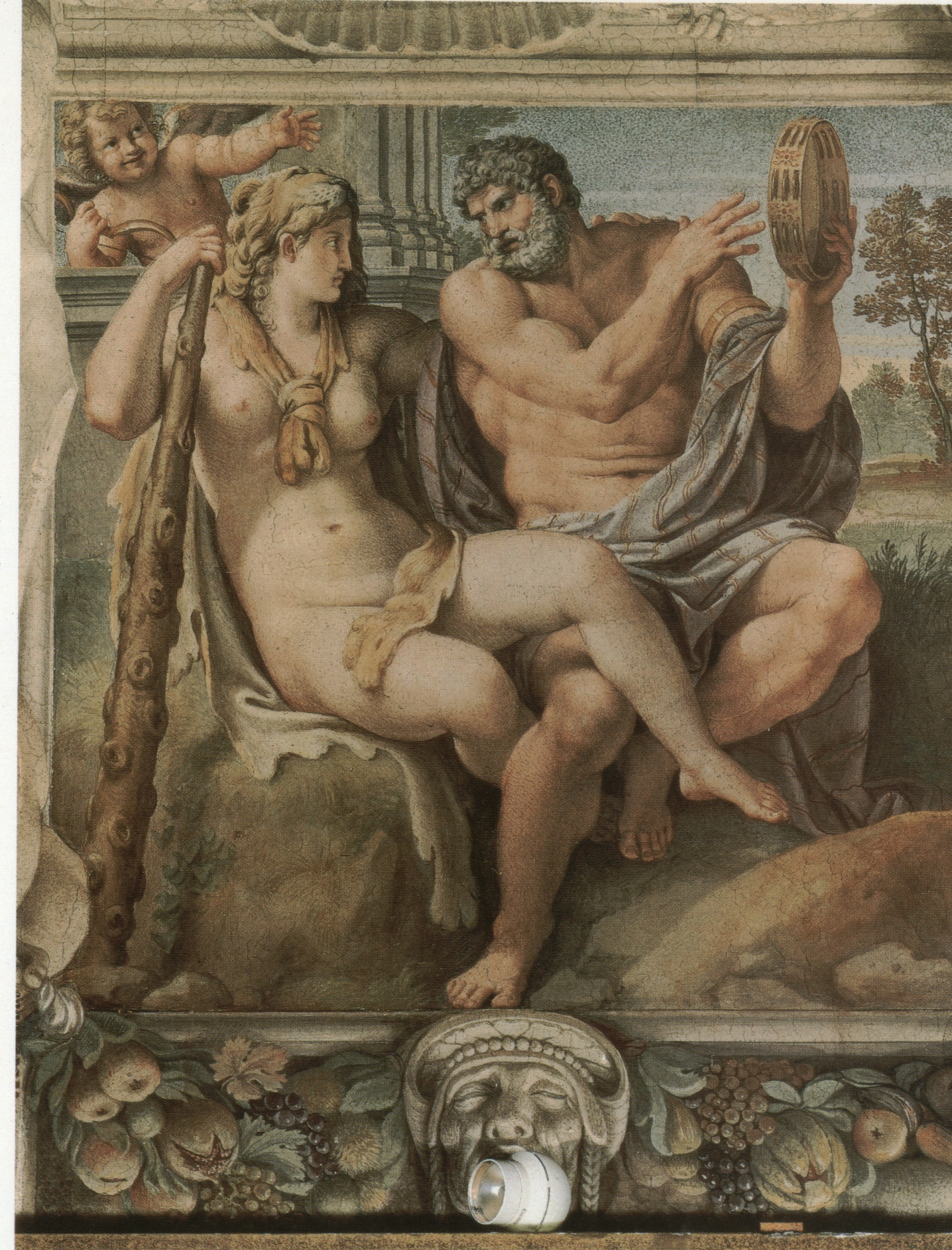 Hercules and Omphale - Farnese Gallery - Rome